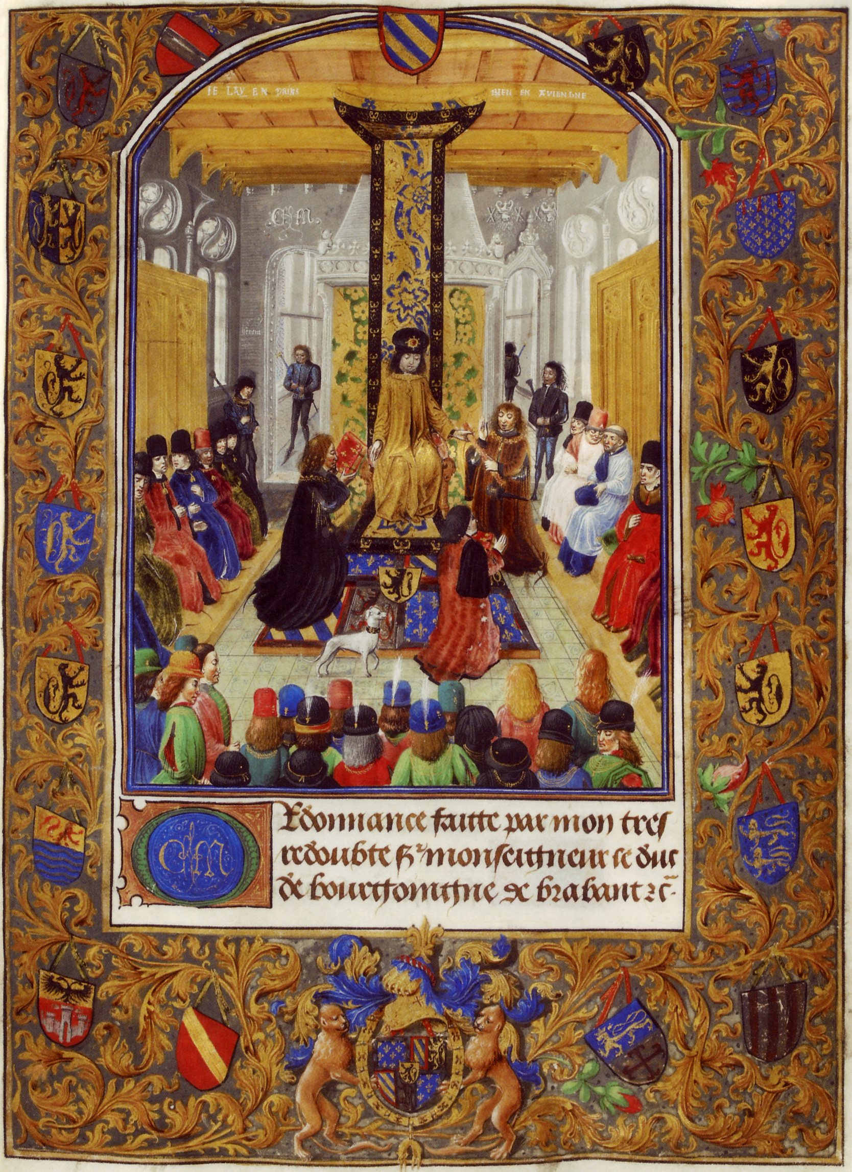 Duke Charles the Bold of Burgundy appoints the officers of its ordinance by giving them a mace and a copy of Army Regulation passes. Miniature from the Heeresordung of 1473, fol. 5r. Tempera on parchment with gold. 30.5 x 21.5 cm. London, The British Library, Add. Ms. 36619th. In the center at the foot of the Duke's personal coat of arms on a carpet. To the miniature line up the arms of the Burgundian dominions, down the center with the Order of the Golden Fleece again the personal coat of arms of Charles the Bold. The other coats of arms are (starting from the coat of arms of Charles clockwise)